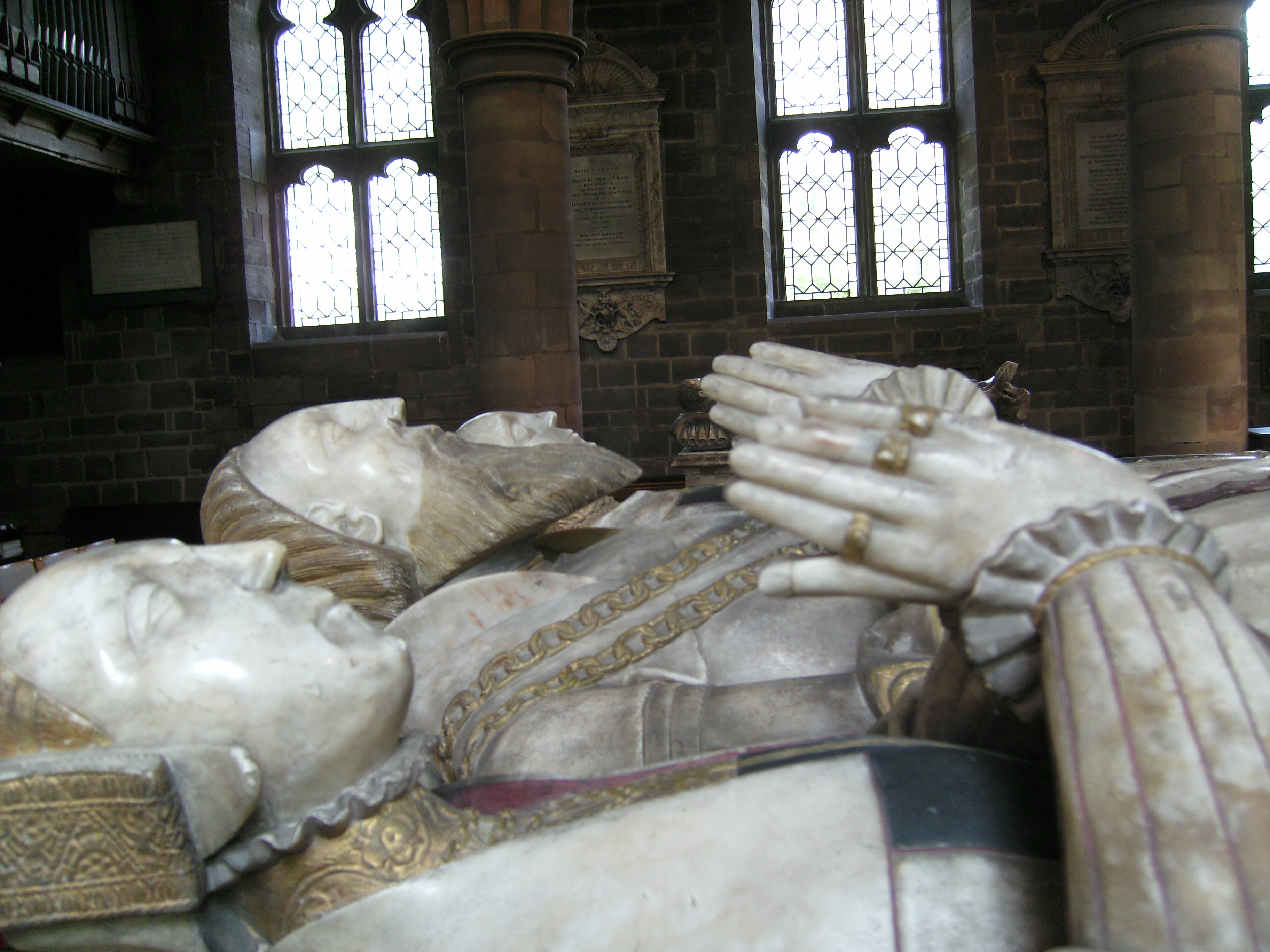 St. Michael and All Angels parish church, Penkridge, Staffordshire: tomb of Sir Edward Littleton (died 1558) and his wives, Helen Swynnerton and Isabel Wood. Attributed to the Royley workshop in Burton on Trent.